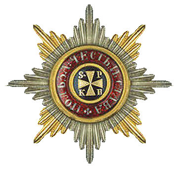 Star, white background